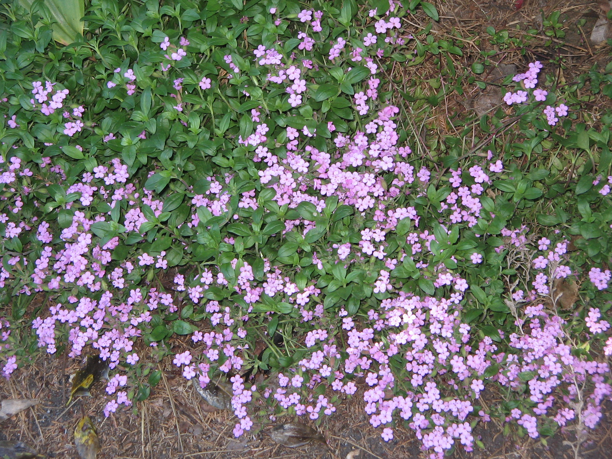 Saponaria ocymoides